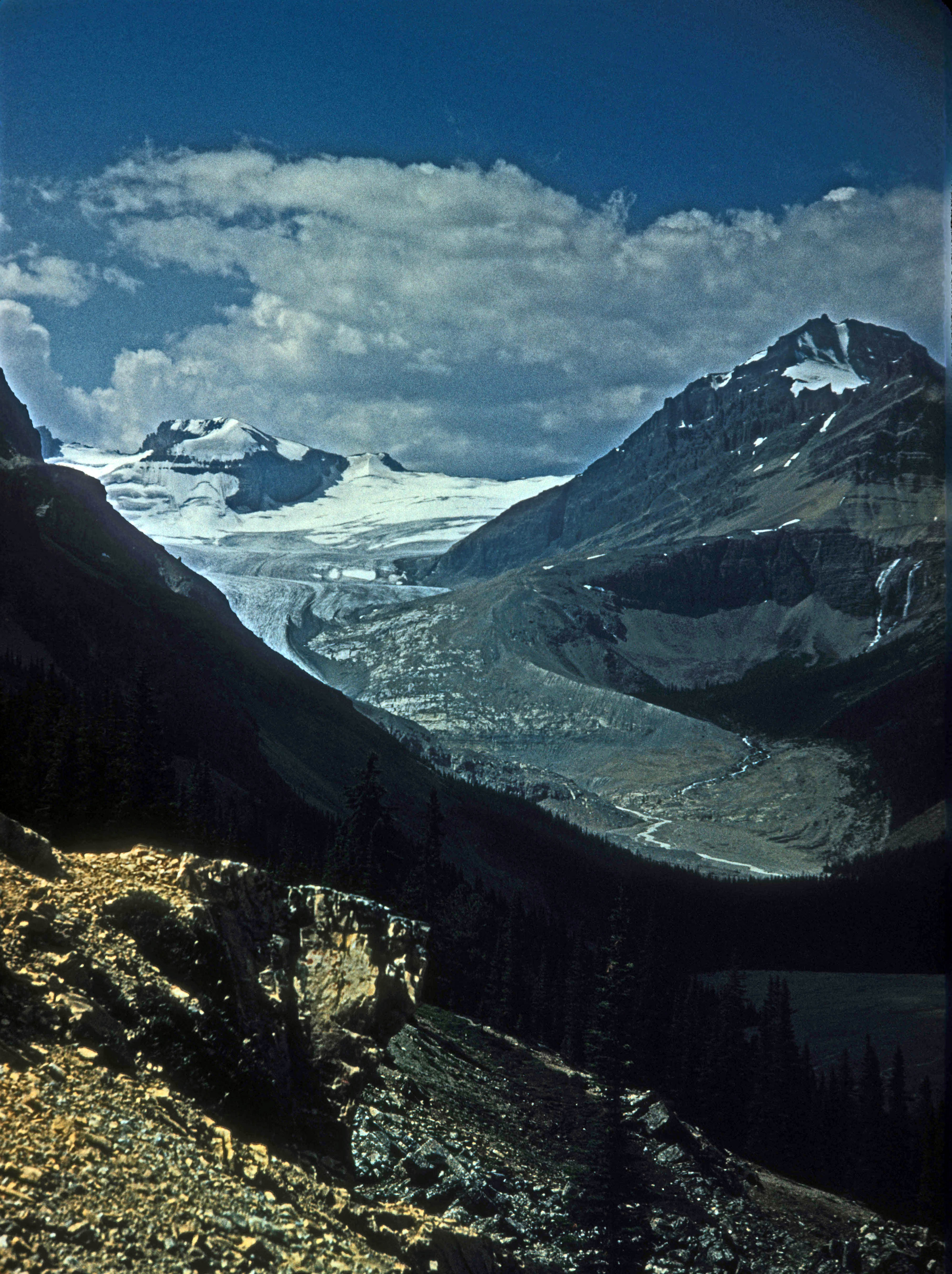 PEYTO GLACIER ARISES FROM THE WAPTA ICEFIELD WHICH SETS ASTRIDE THE CONTINENTAL DIVIDE in Banff National Park, Alberta, Canada